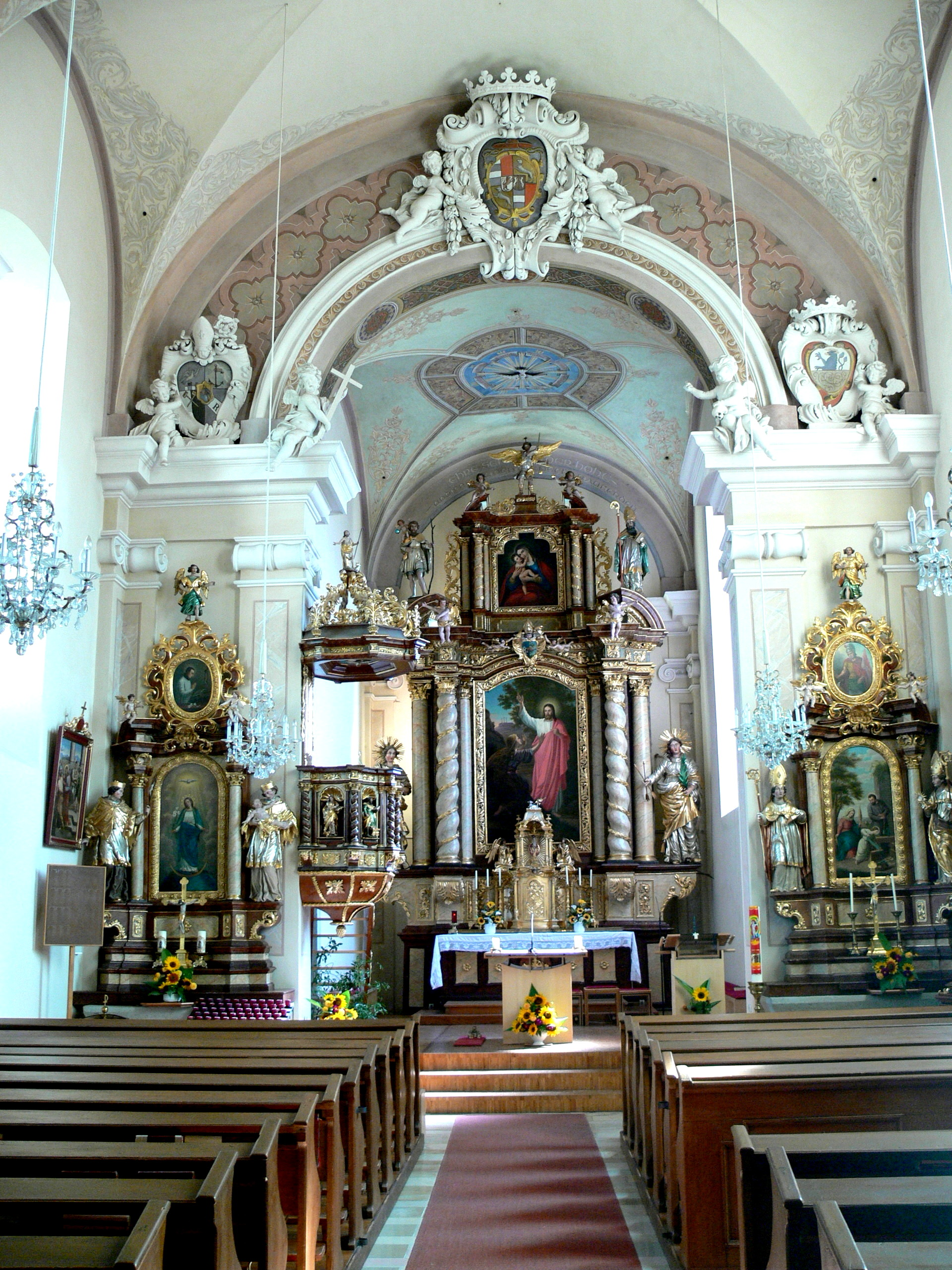 Saint Mary Magdalene parish church in Oepping ( Upper Austria ). Interior.